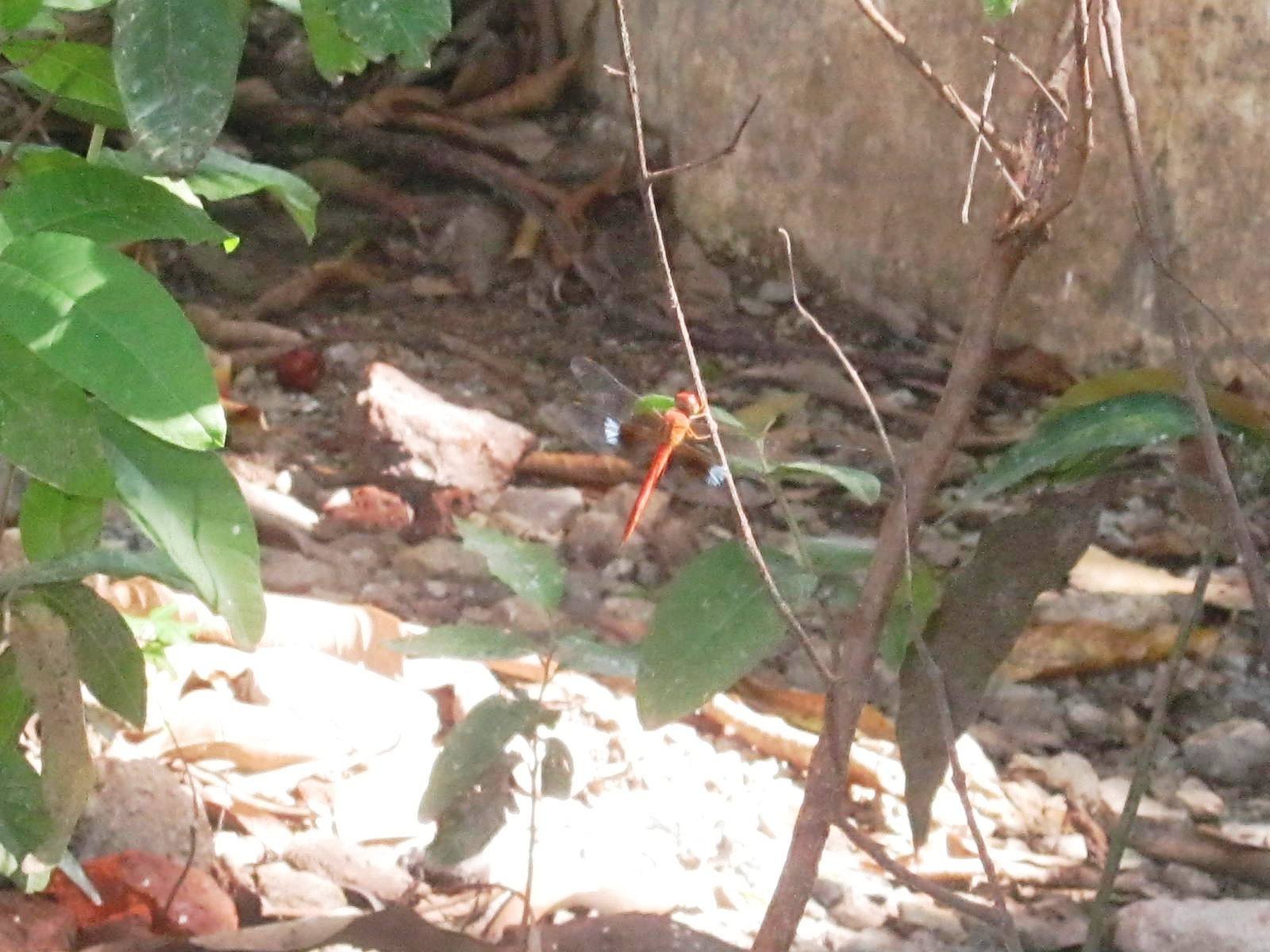 Very rare dragon fly